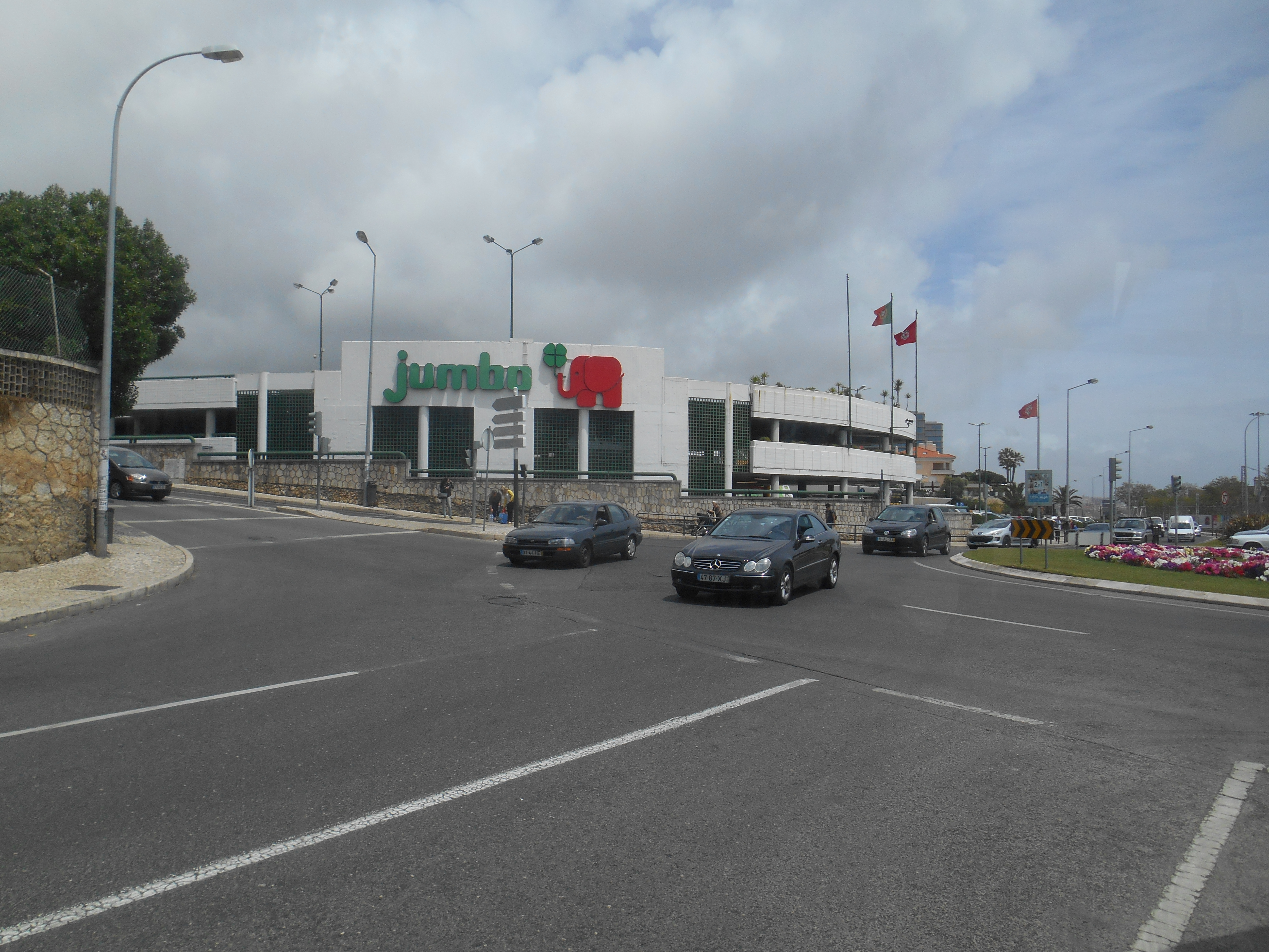 Jumbo in Cascais, across the street from Cascaisvilla and Cascais train station